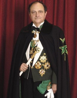 Grand Master in uniform and mantle of a Knight of St. Lazarus.